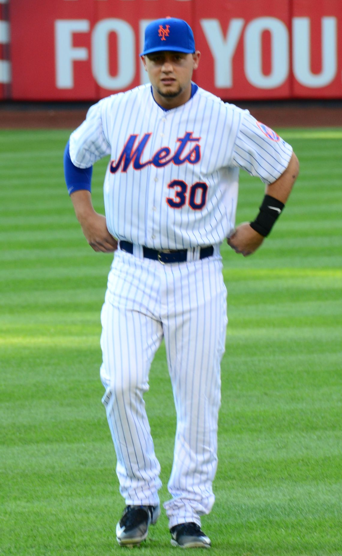 Michael Conforto